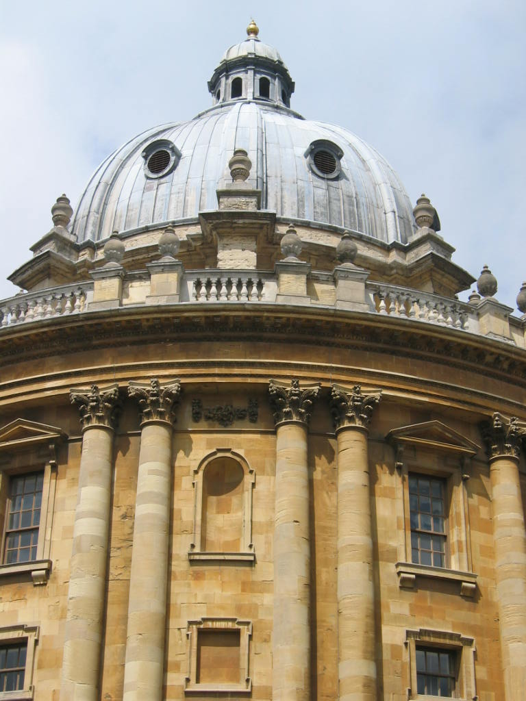 Radcliffe Camera, Oxford - July 2004. Photographed by IXIA 22:48, 30 September 2006 (UTC)